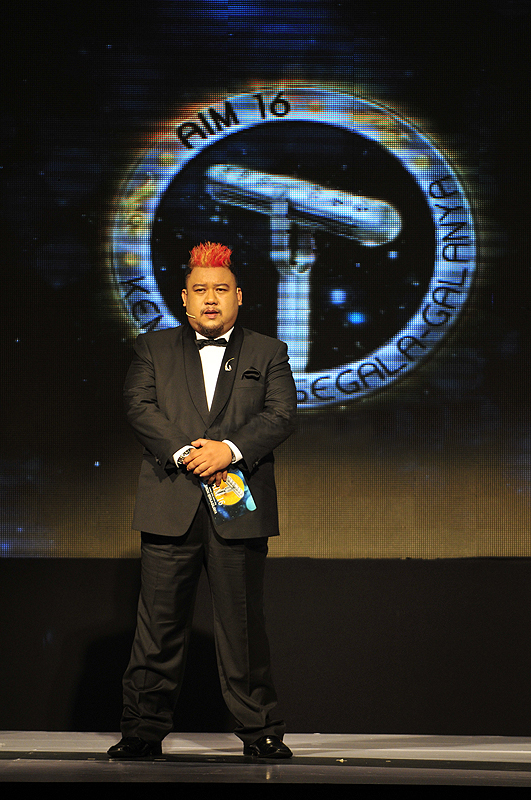 Anugerah Industri Muzik 16 (AIM 16) @ Dewan Merdeka, PWTC 2 May 2009